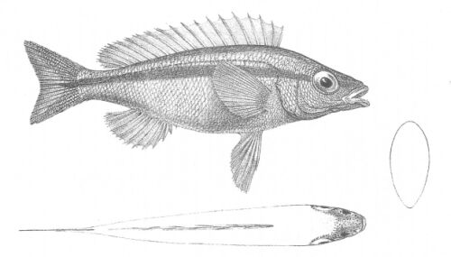 This is an image entitled "Smaris porosus" from Volume 1 of John Lort Stokes' 1846 book Discoveries in Australia. The species depicted is now known as Pentapodus vitta.